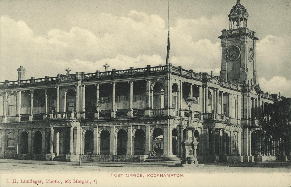 Rockhampton Post Office, ca. 1895. Rockhampton Post Office was designed by the architect G Connolly and constructed by Collins and McLean in 1895. It was built from Stanwell sandstone. The most striking features of the building are the superb colonnades and the imposing clock tower. The Post Office is situated on the northwest corner of East Street and Denham Street.